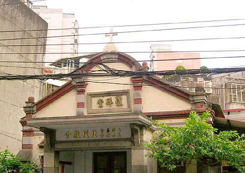 The old church in Bei Tou, Taipei, Taiwan.中文（台灣）: 北投古蹟・長老教會教堂。